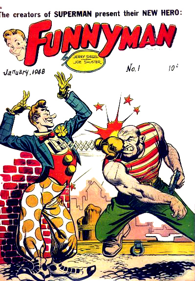 Art by Joe Shuster, from Funnyman number 1 (Magazine Enterprises, January 1948).